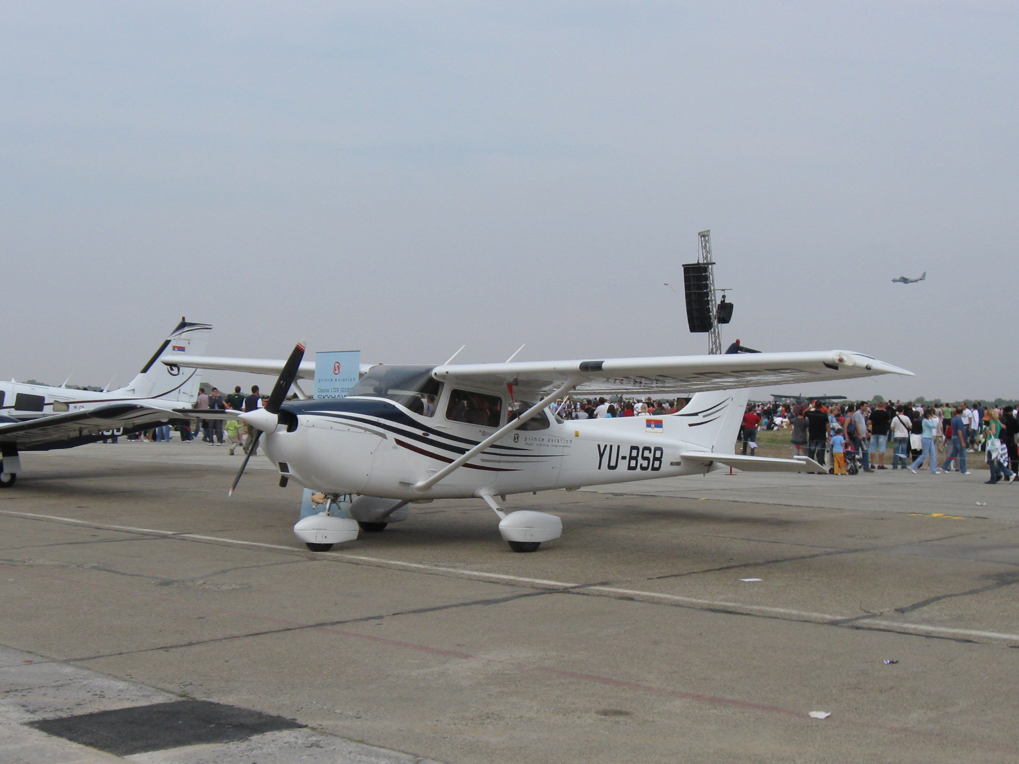 Cessna 172S